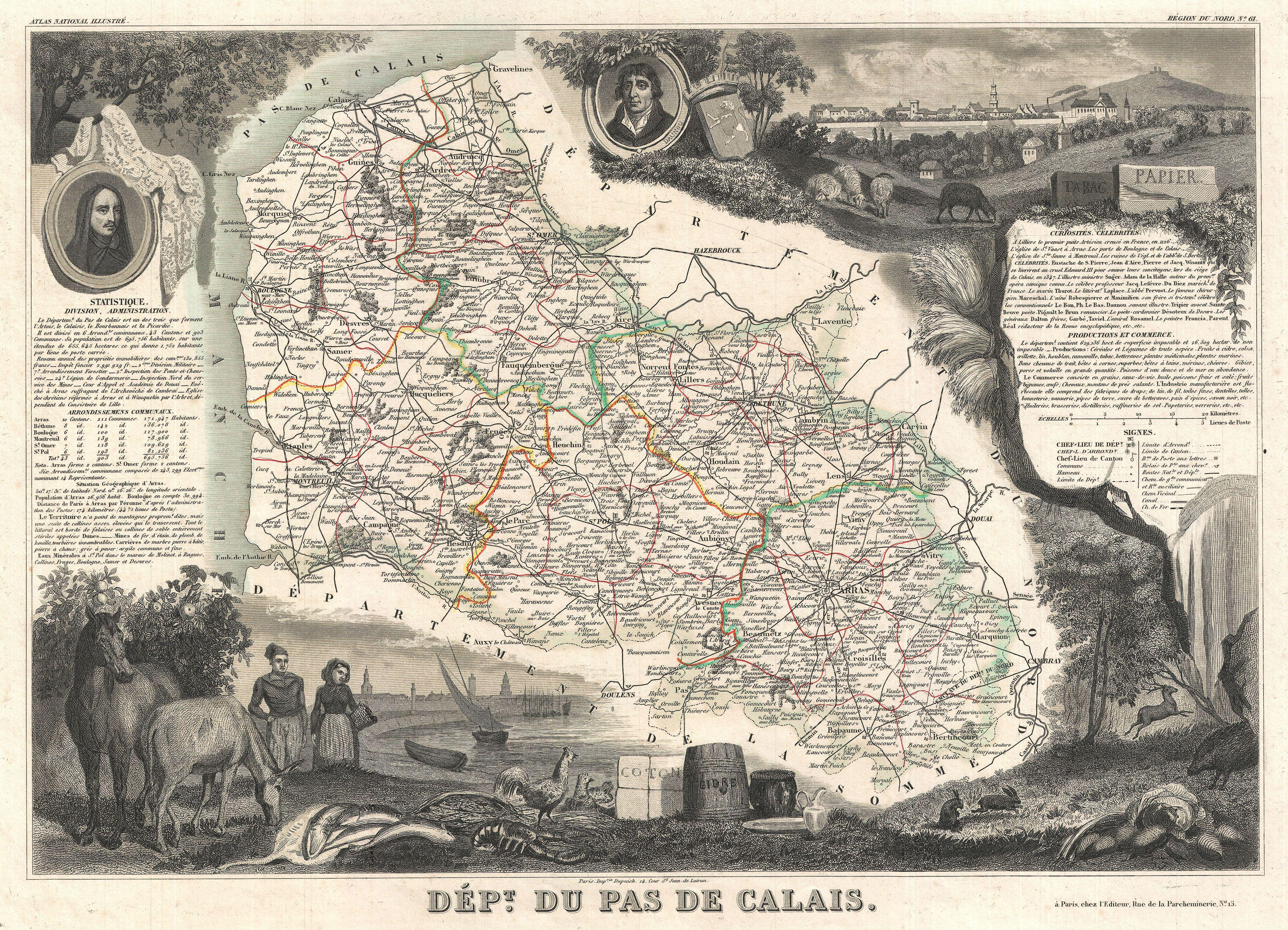 This is a fascinating 1852 map of the French department of Calais, France. This area is known for producing Maroilles, a soft cheese made from cow’s milk and with a washed rind. The map proper is surrounded by elaborate decorative engravings designed to illustrate both the natural beauty and trade richness of the land. There is a short textual history of the regions depicted on both the left and right sides of the map. Published by V. Levasseur in the 1852 edition of his Atlas National de la France Illustree.